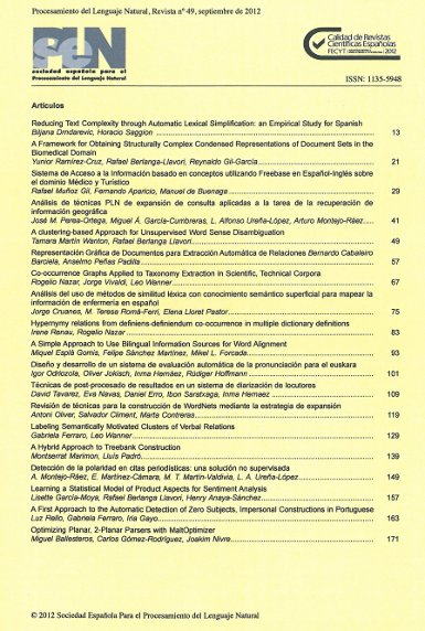 Cover of the scientific journal Procesamiento del Lenguaje Natural.